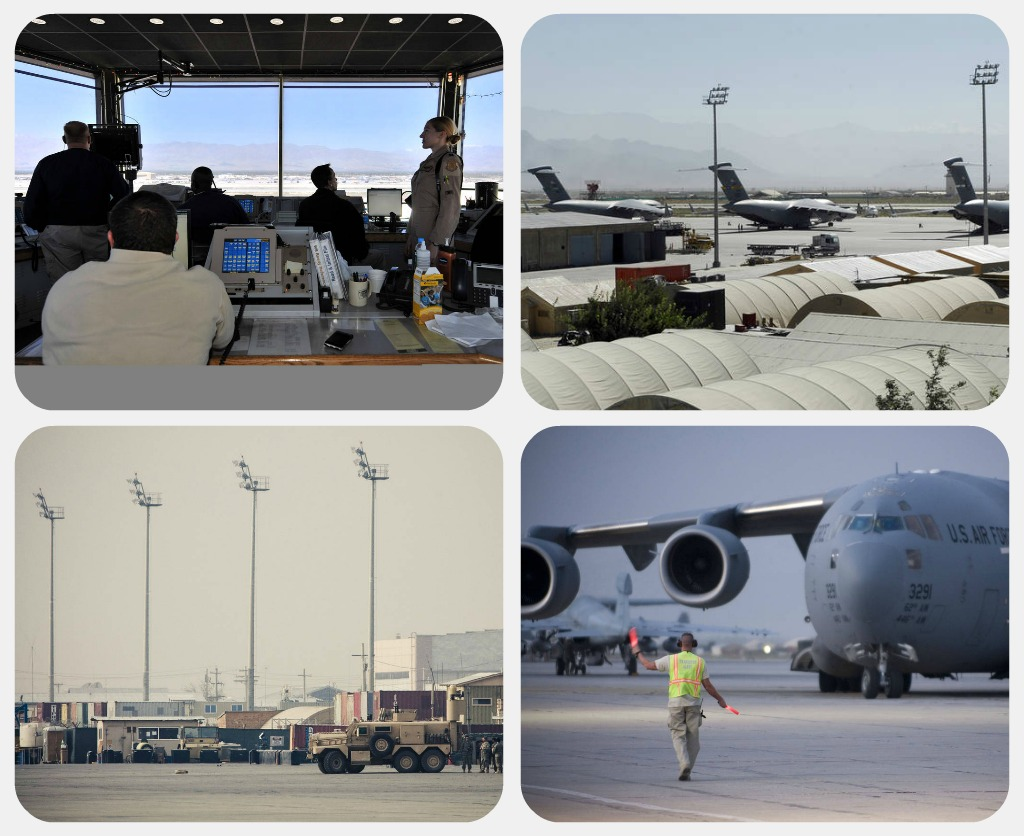 Bagram Airfield collage